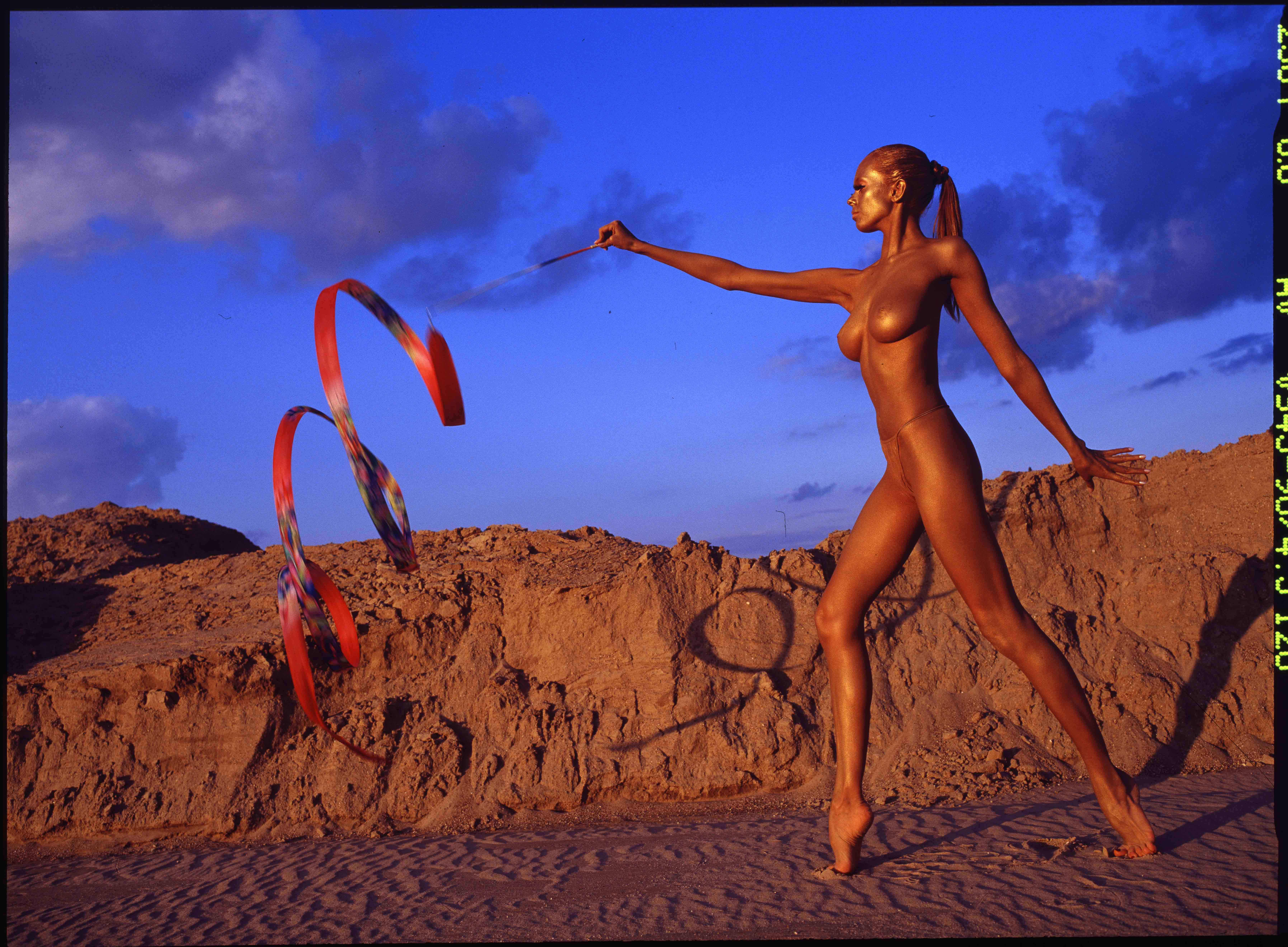 Stolbova Maria, russian rhythmic gymnast